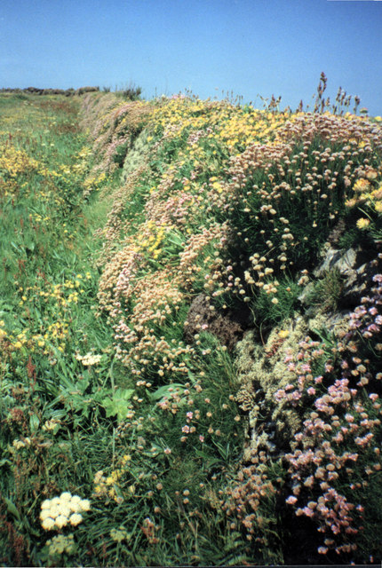 Cornish hedgerow just above Halzephron